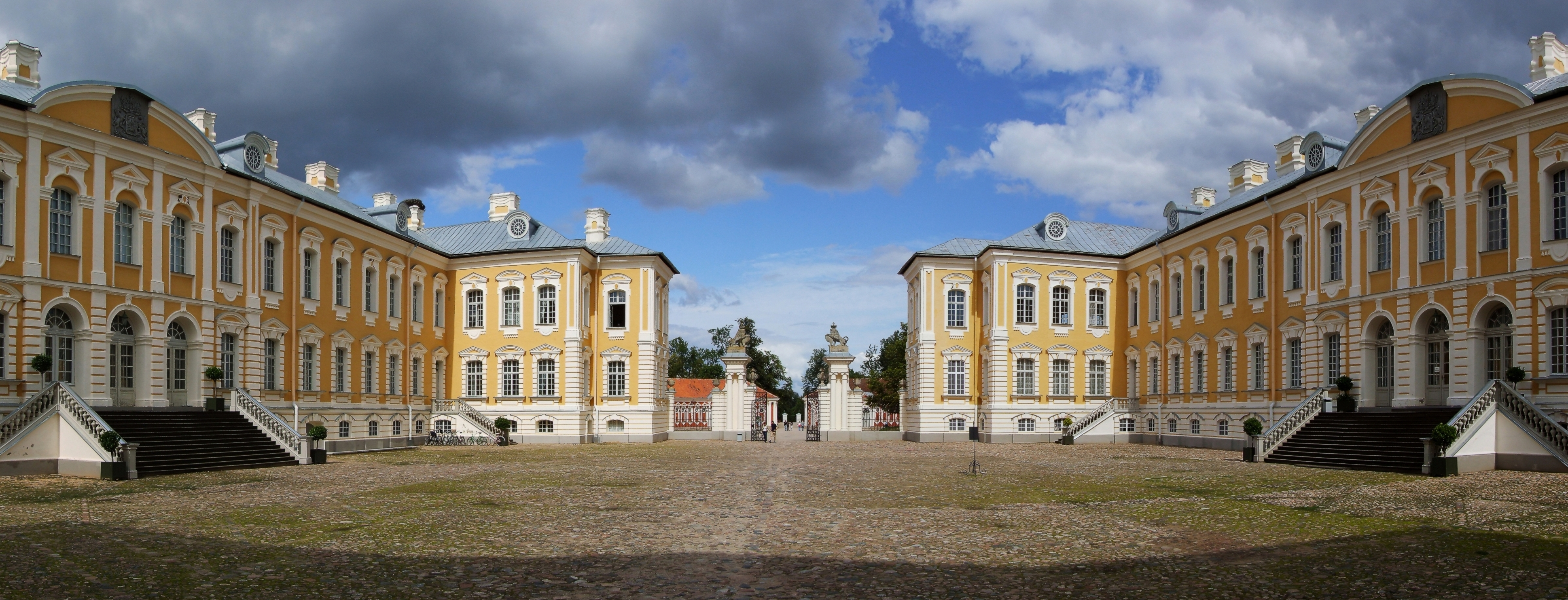 Rundāle Palace, Latvija